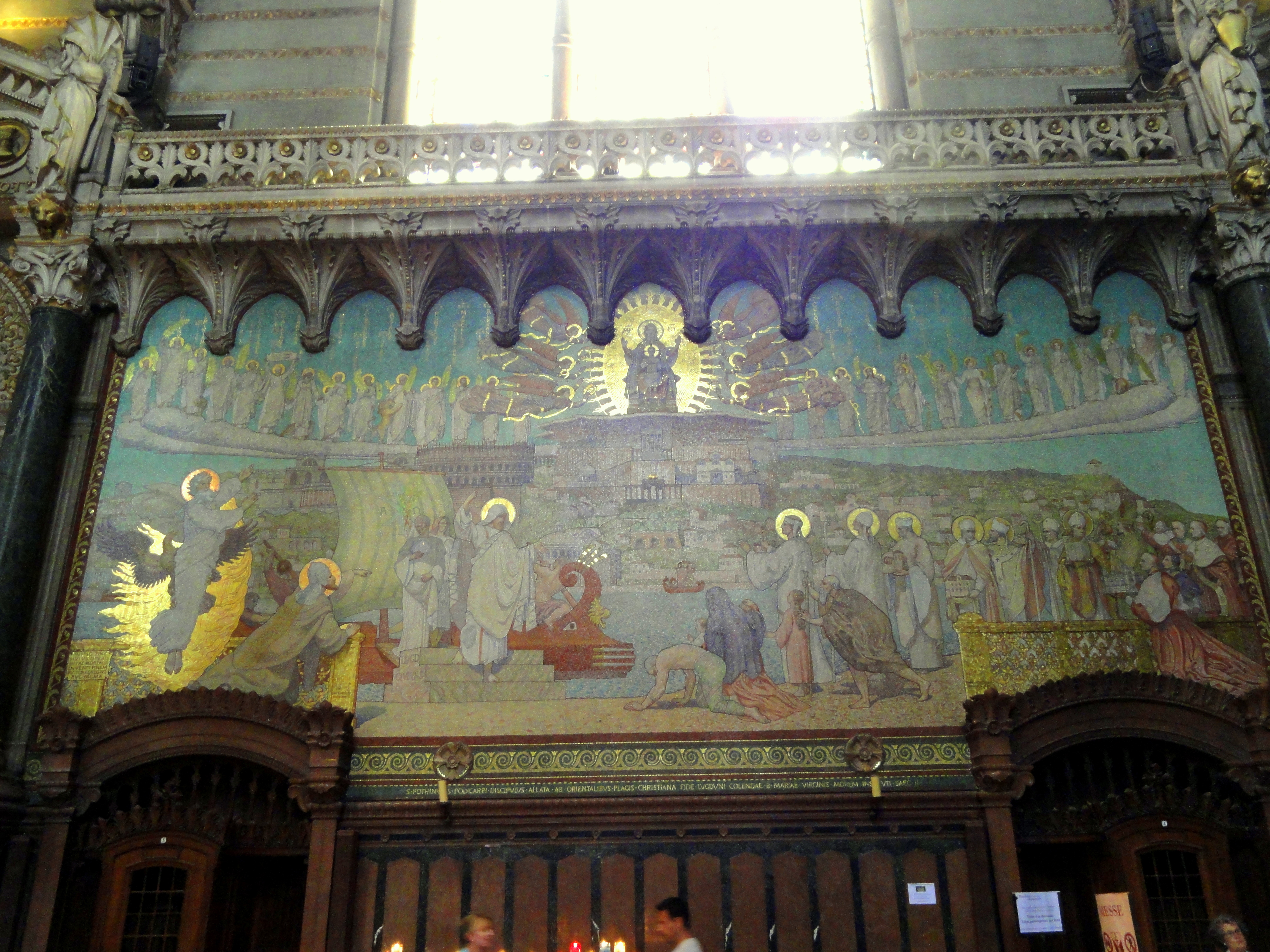 Interior of the Basilique Notre-Dame de Fourvière, Lyon, France.